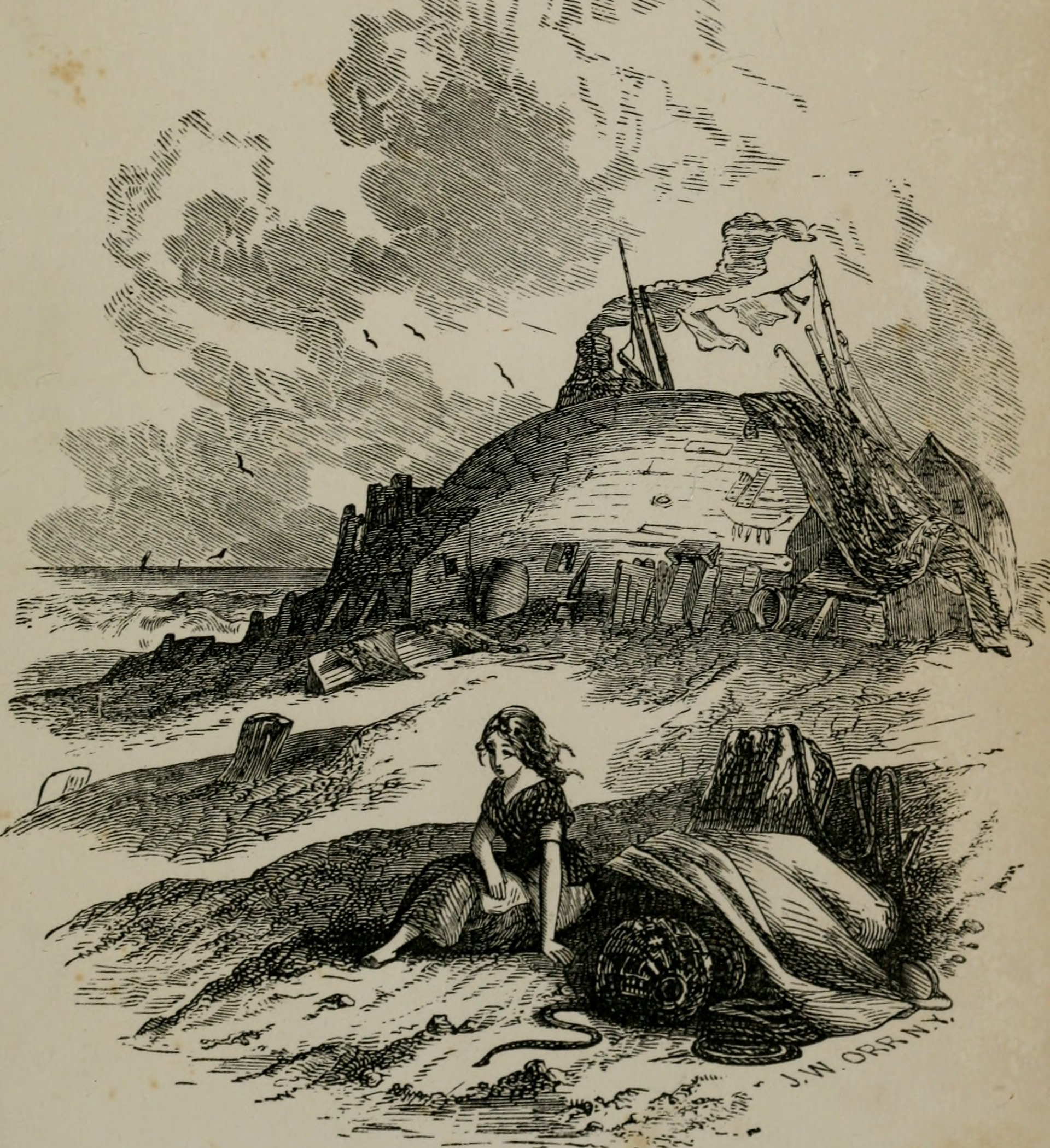 Title: David Copperfield Year: 1850 (1850s) Authors: Dickens, Charles, 1812-1870 Browne, Hablot Knight, 1815-1882 Subjects: Boys Orphans Young men Child labor Publisher: Philadelphia : T.B. Peterson Text Appearing Before Image: ' Text Appearing After Image: pi)ilai)£lpl)T. B. PETERSON, No. 102 CHESTNUT STREET. u..^^ „,riVo^^^^^^^»^ 0 DAYID COPPERFIELD. BY CHARLES DICKENS. (BOZ.) WITH THIRTY-EIGHT ILLUSTRATIONS, FROM DESIGNS BY H. K. BROWNE. IN TWO VOLUMES. VOL. I. pi)ilabcl;jl)T. B. PETERSON, NO. 102 CHESTNUT STREET. V.J